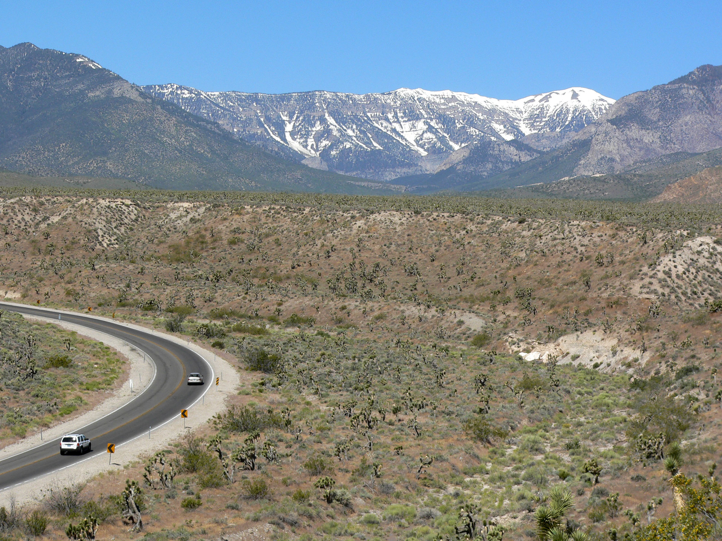 View of Kyle Canyon, Spring Mountains, west of Las Vegas, Nevada with Mount Charleston in background